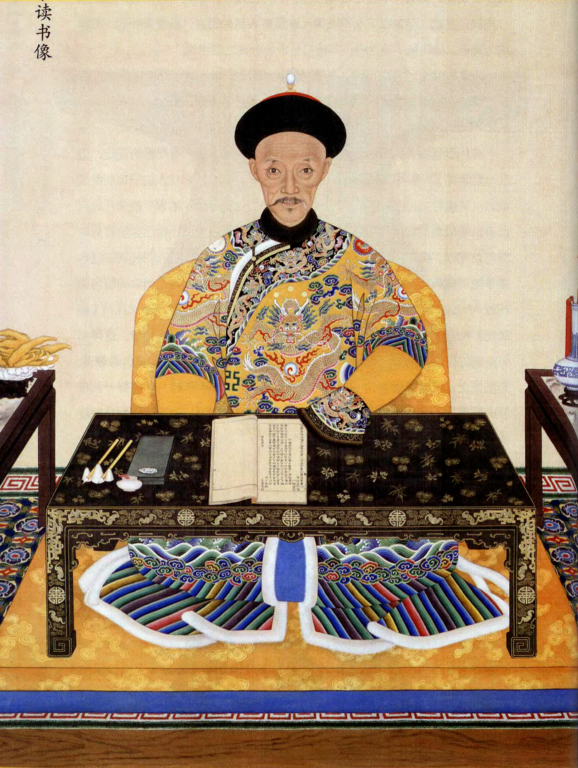 Emperor Daoguang in his Study